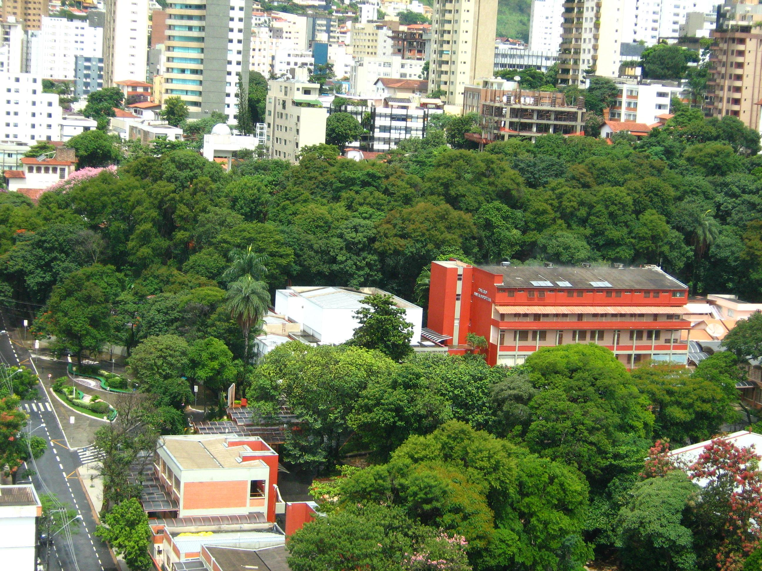 Santa Dorotéia School in Sion neibourhood, Belo Horizonte, Brazil.